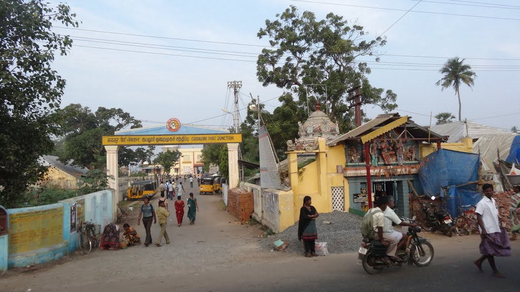 Cuddalore Port Jn. Entrance Arch